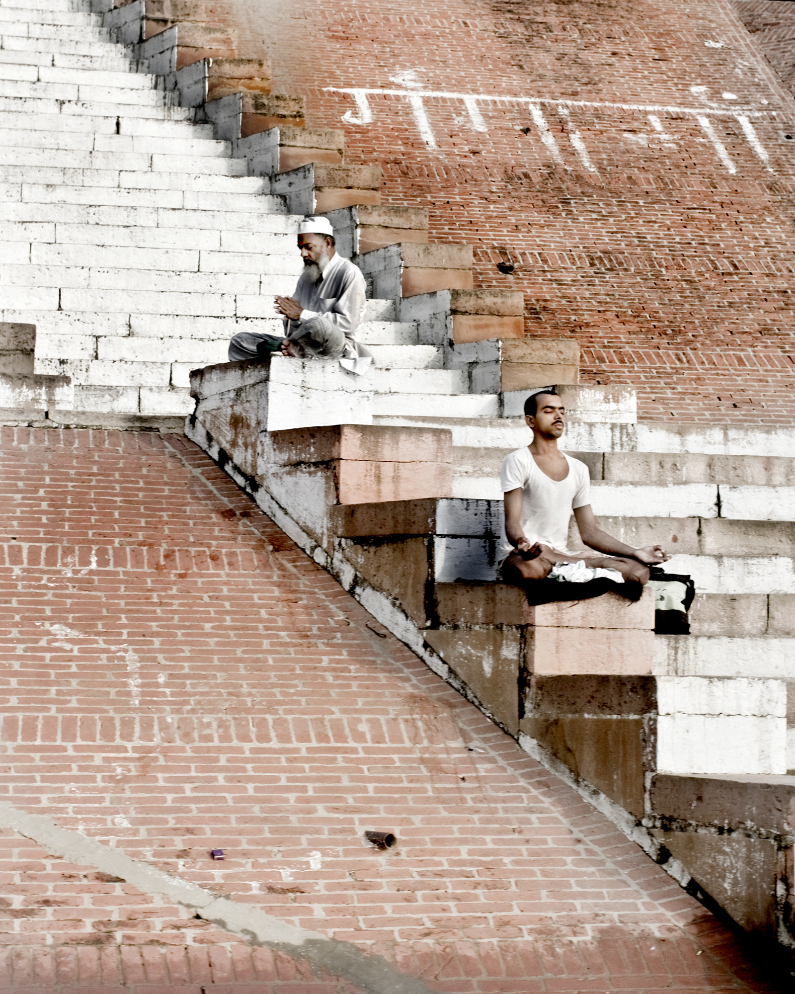 BSB. Dawn Cruise. Meditation 02